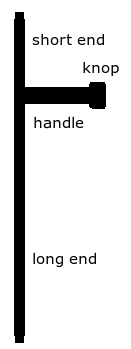 Elements of tonfa